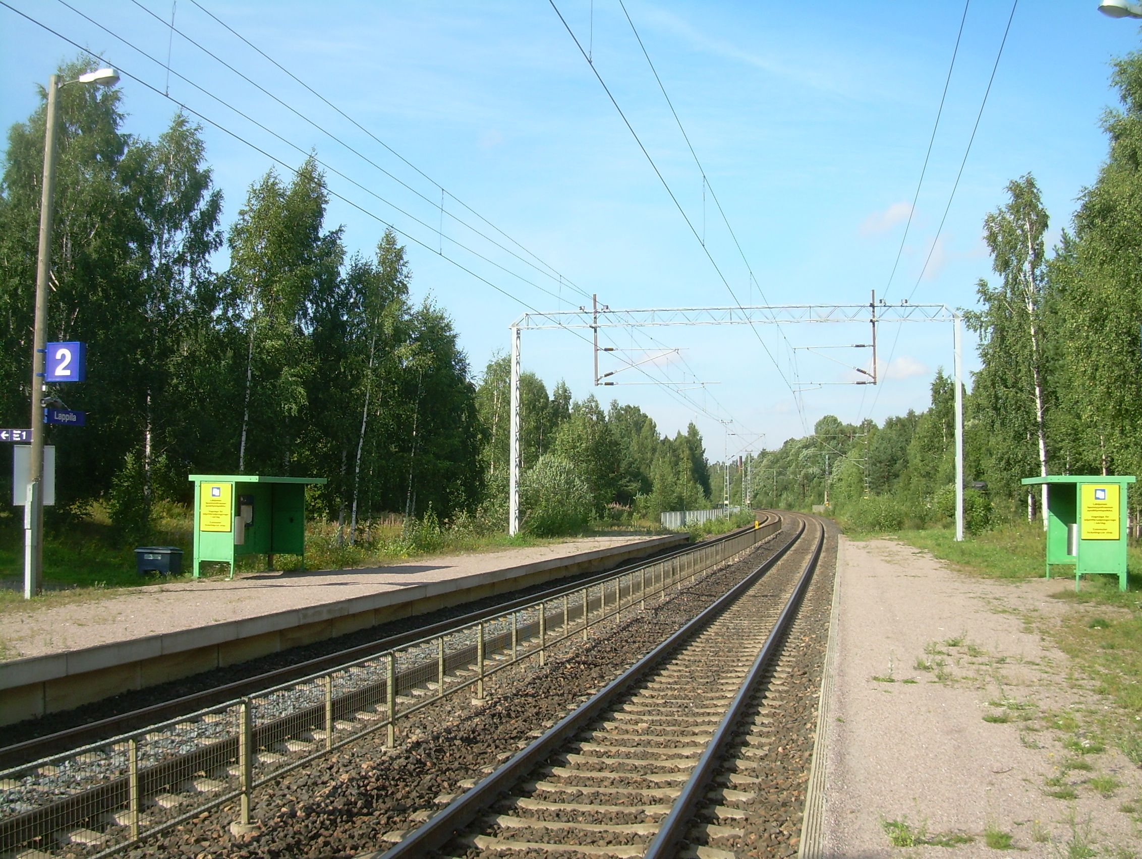 Lappila railway stop in August 2011